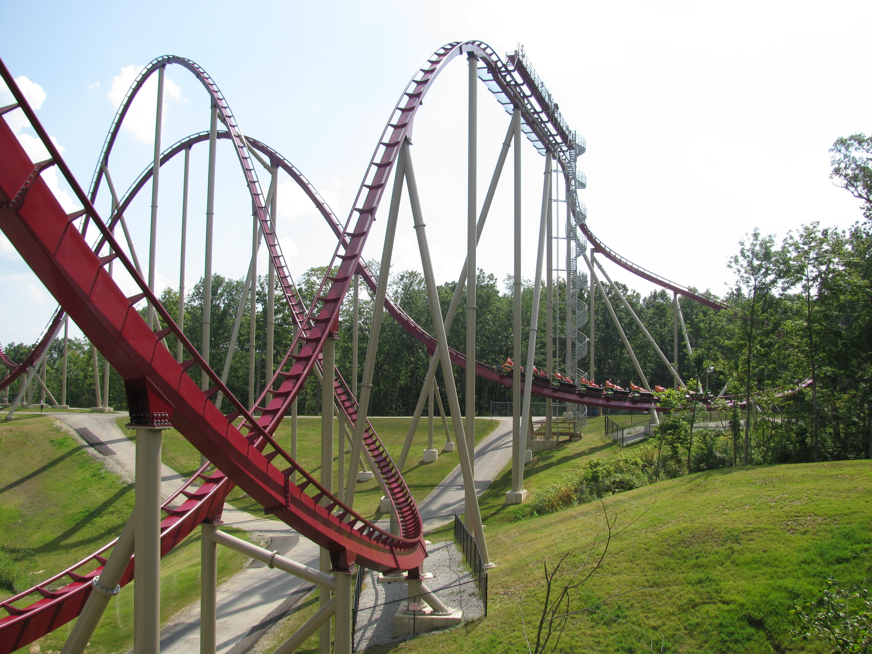 The back half of Diamondback at Kings Island amusement park.